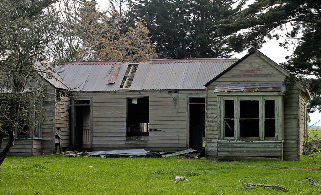 A view of an old abandoned farmhouse at Selwyn, a few kilometers north of Dunsandel.